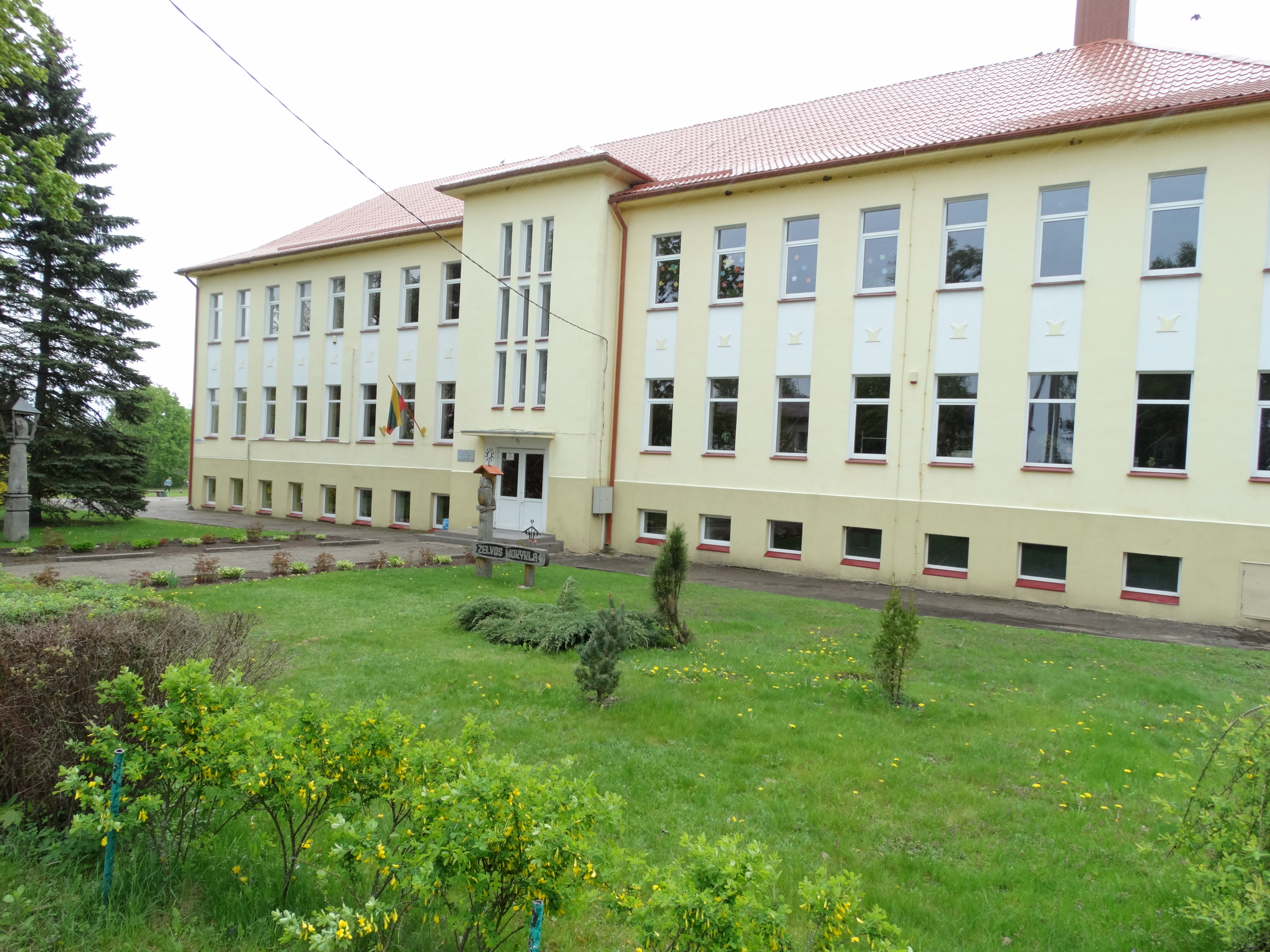 School, Želva, Ukmergė district, Lithuania